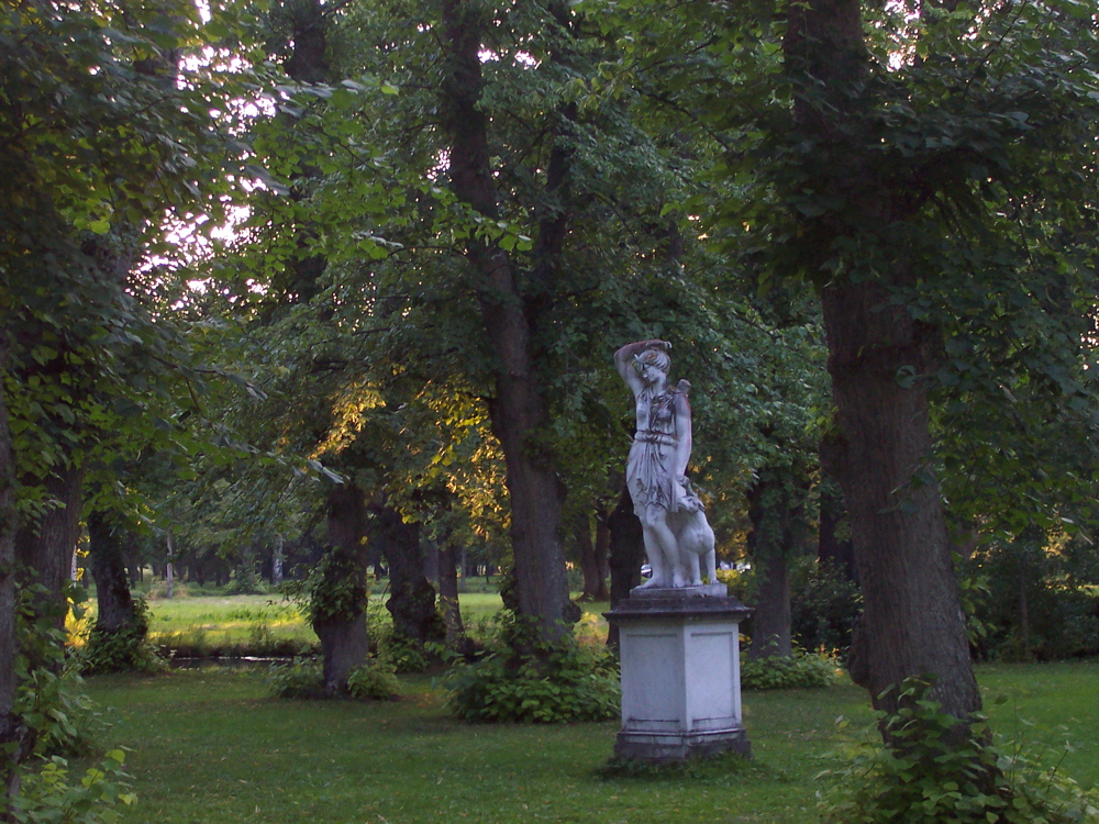 Statue in Drottningholms garden. Photo taken by myself.